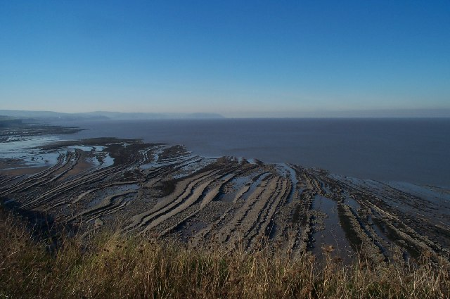 Beach between Kilve and Lilstock The fantastic wave cut platform is best seen at low tide. The distant cliff in the centre of the picture is North Hill, above Minehead.